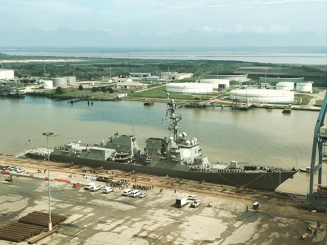 Great view of the USS James E. Williams welcomed in the Port of Mobile getting #NavyWeek off to a good start!